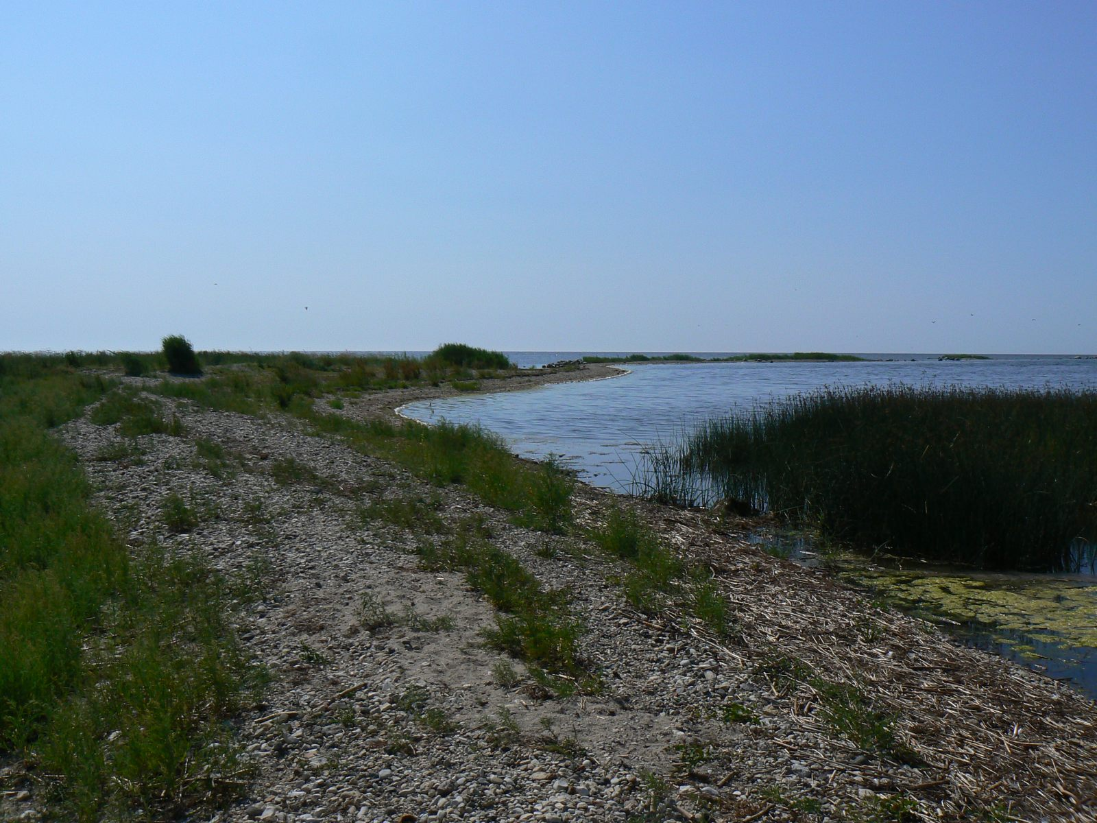 Liu säär (cape) in Estonia